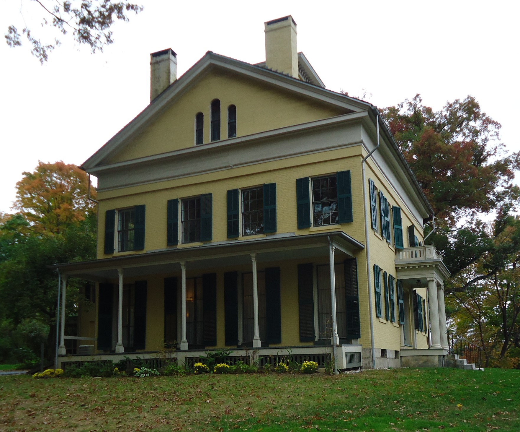 The house of American poet Emily Dickinson, in Amherst, Massachusetts, which is now a museum.